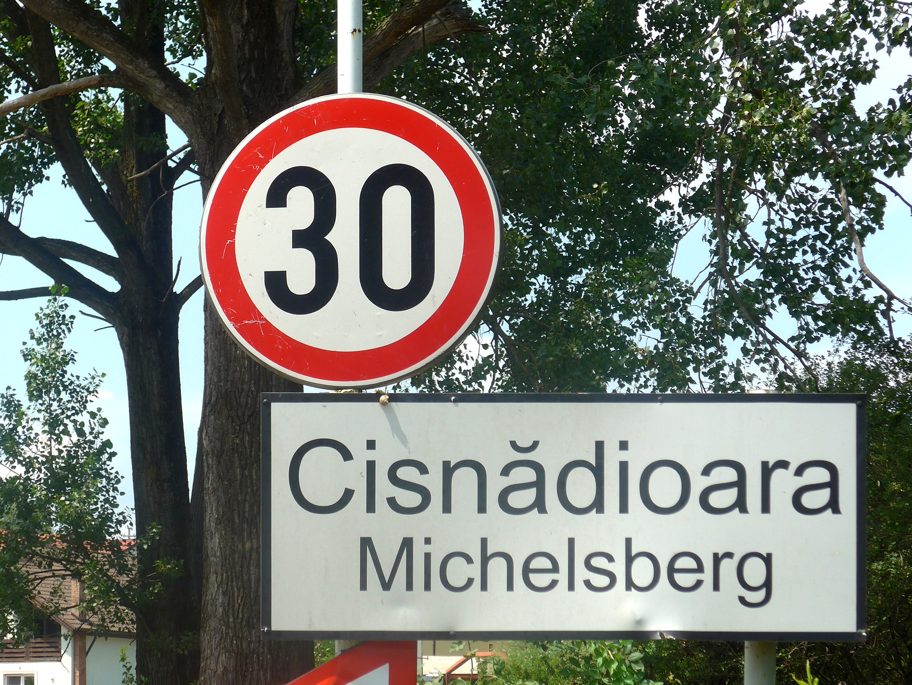 Official bilingual town sign of Cisnadiora/Michelsberg in Romania